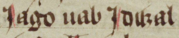 An excerpt from folio 60r of Oxford Jesus College MS 111 (the Red Book of Hergest). The excerpt concerns Iago ab Idwal ap Meurig, King of Gwynedd (died 1039), and records his name and title as it appears in the manuscript: "Jago uab Jdwal".